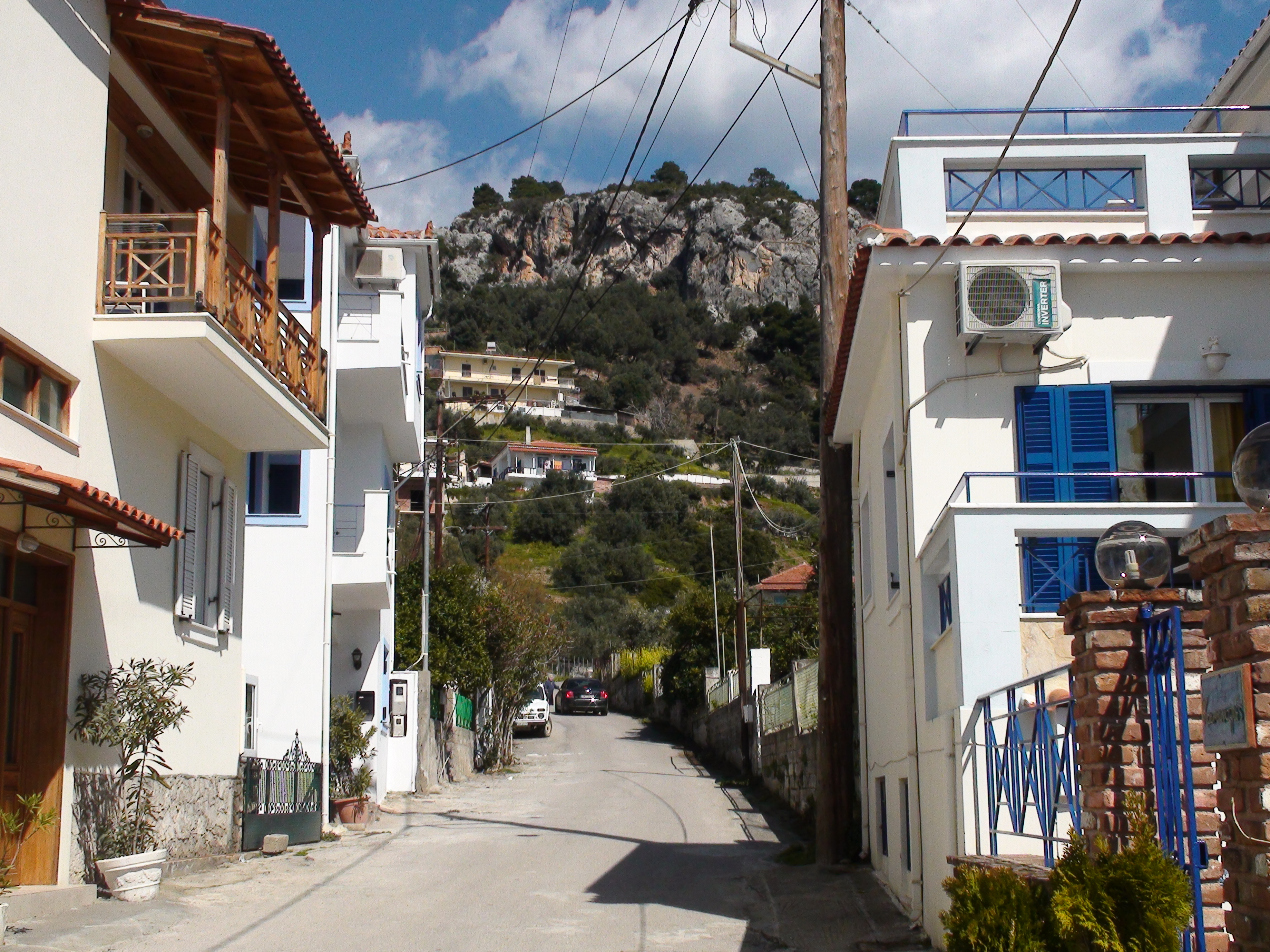 Apartmenthouse-villa in the beautiful village of Limni, North Evia, Greece